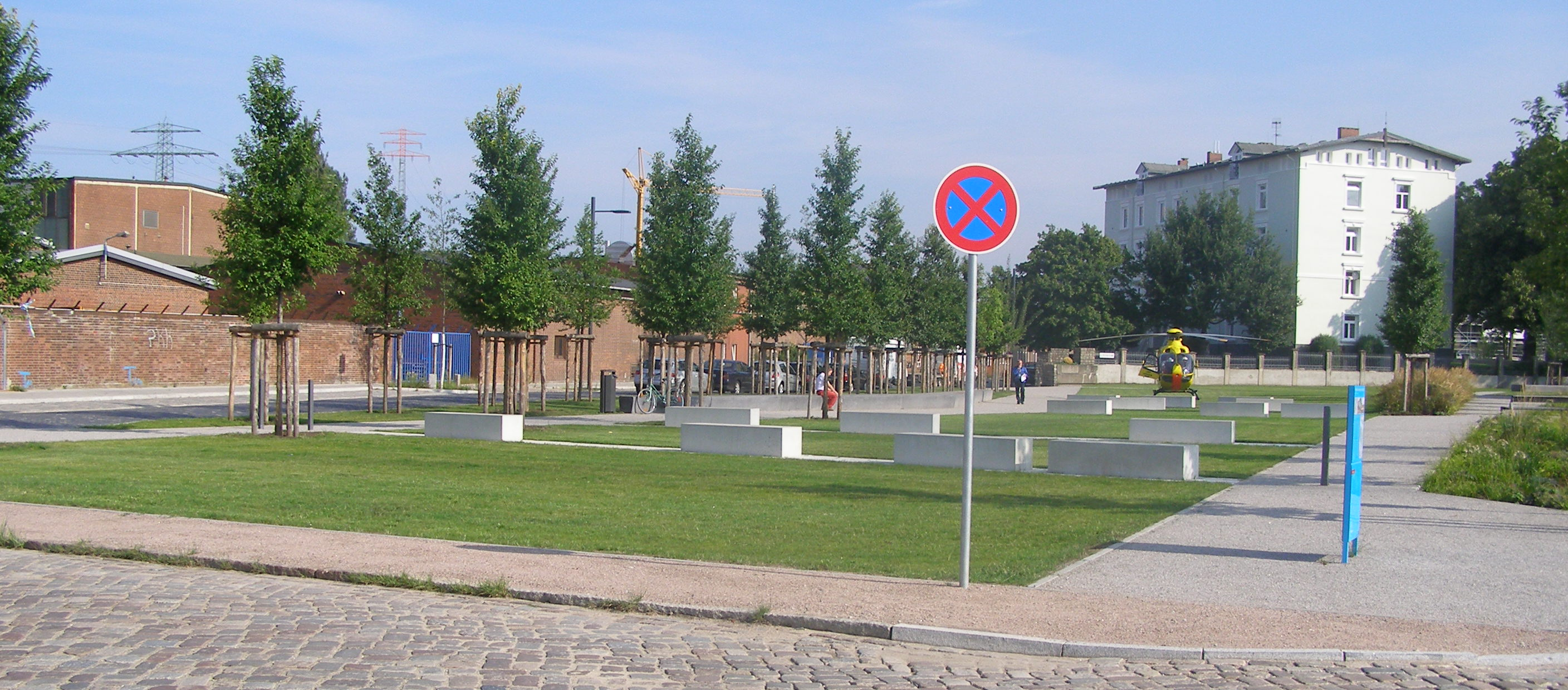 Part of the new park on the Harburg Schloßinsel with starting helicopter; background: the Harburger Schloss